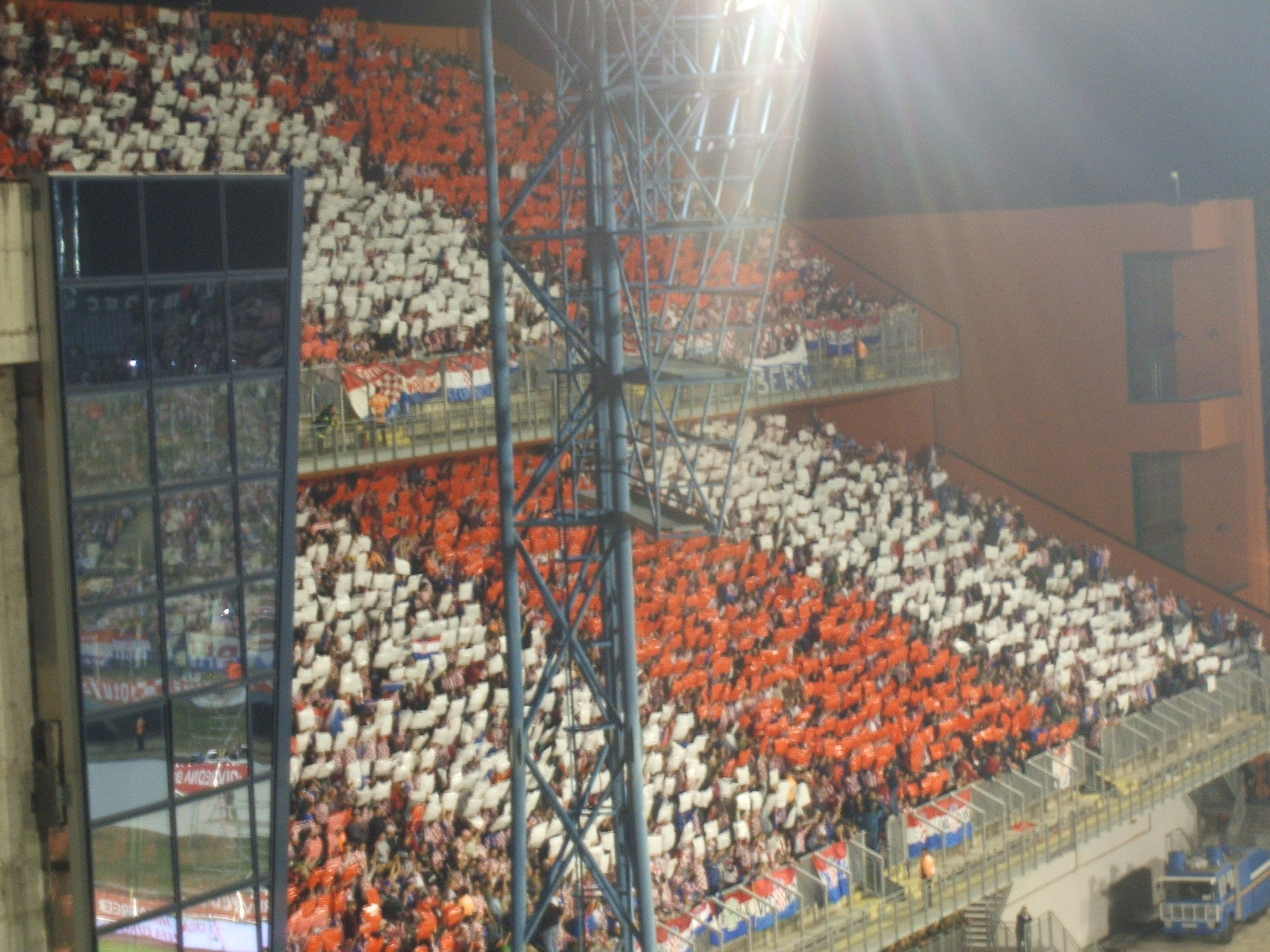 North grandstand in Maksimir stadium, Zagreb, during the football match between Croatia and England.